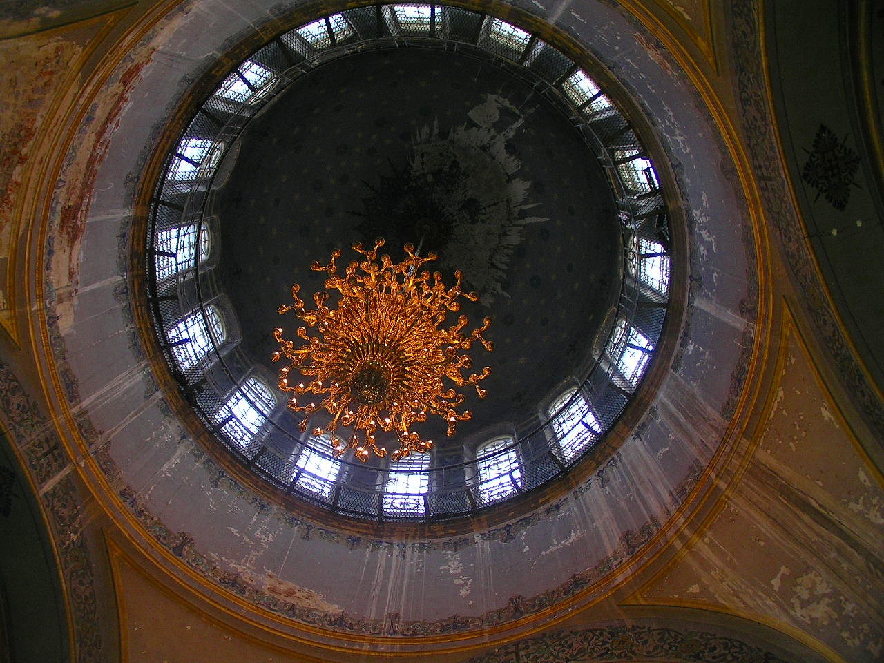 The Cathedral of the Holy Wisdom of God in Harbin